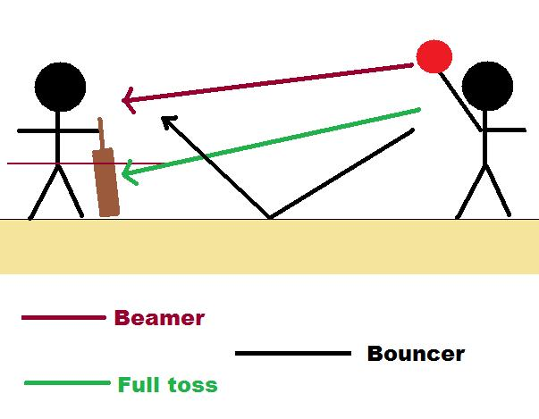 Distinctions between beamer, bouncer and full toss deliveries. This wonderful graphic often serves as a introduction for novice bowlers.